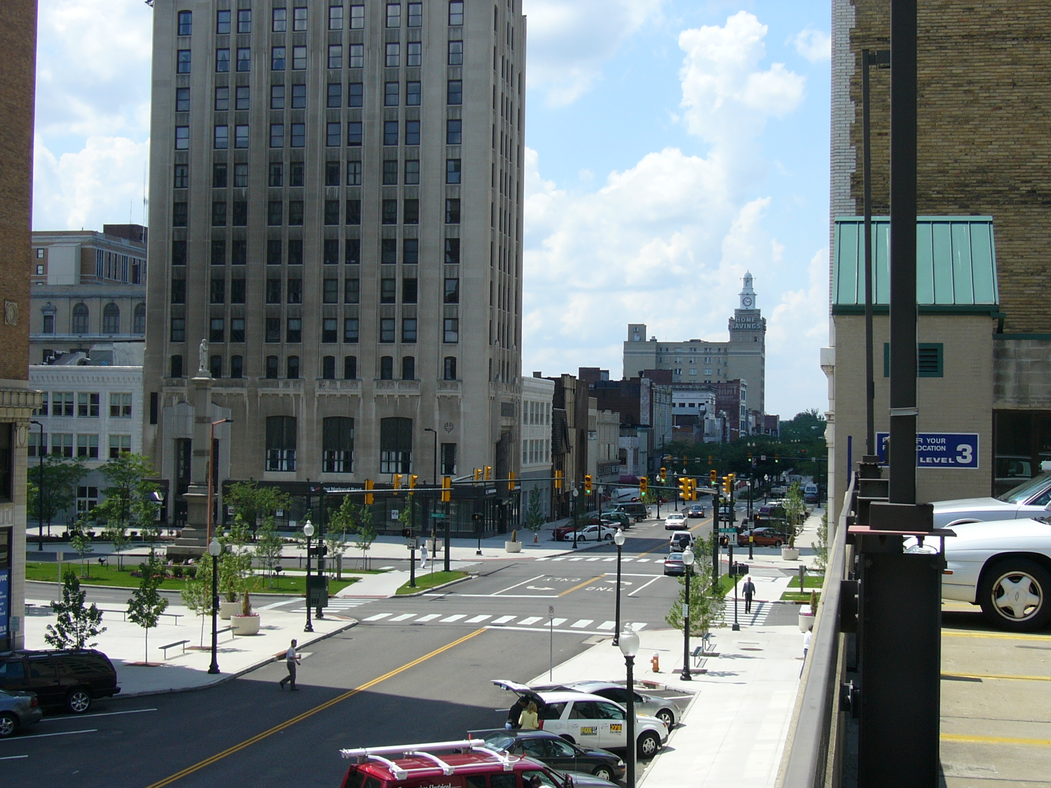 Downtown's Central Square (Federal Plaza) from the east in Youngstown, Ohio